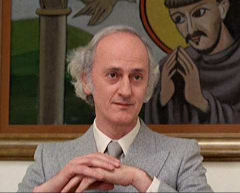 Italian actor Paolo Paoloni in a scene of the film Fantozzi